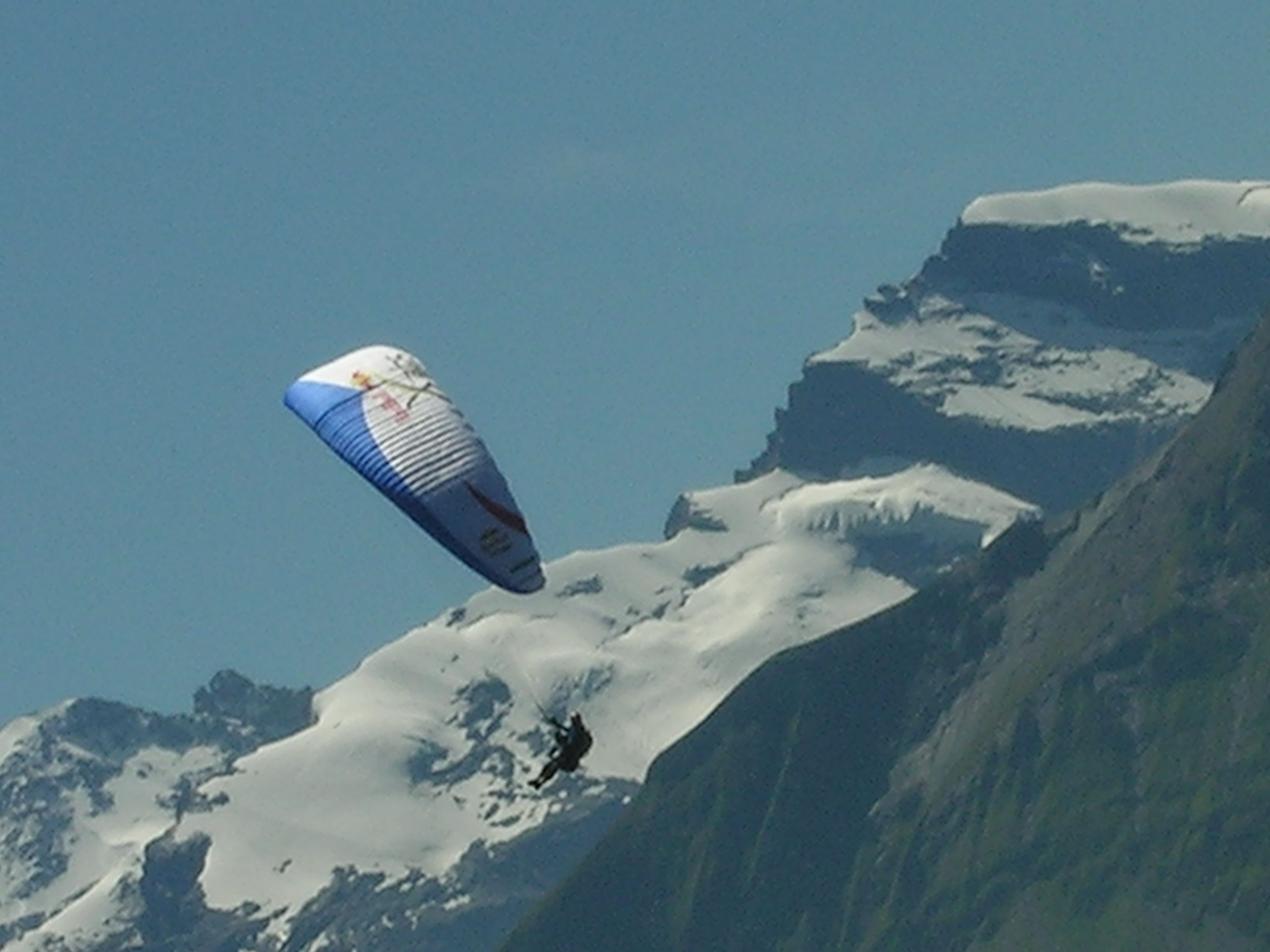 Paragliding in Swiss mountains, Schynige Platte.